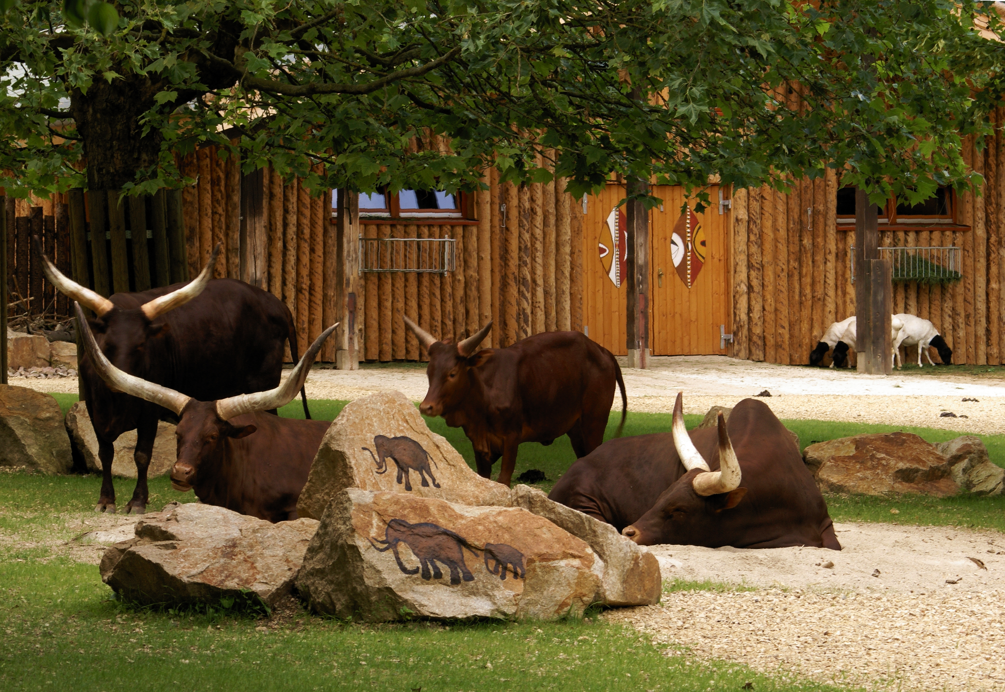 africa-enclosure, Zoo Straubing, Ankole-Watusi-cattle